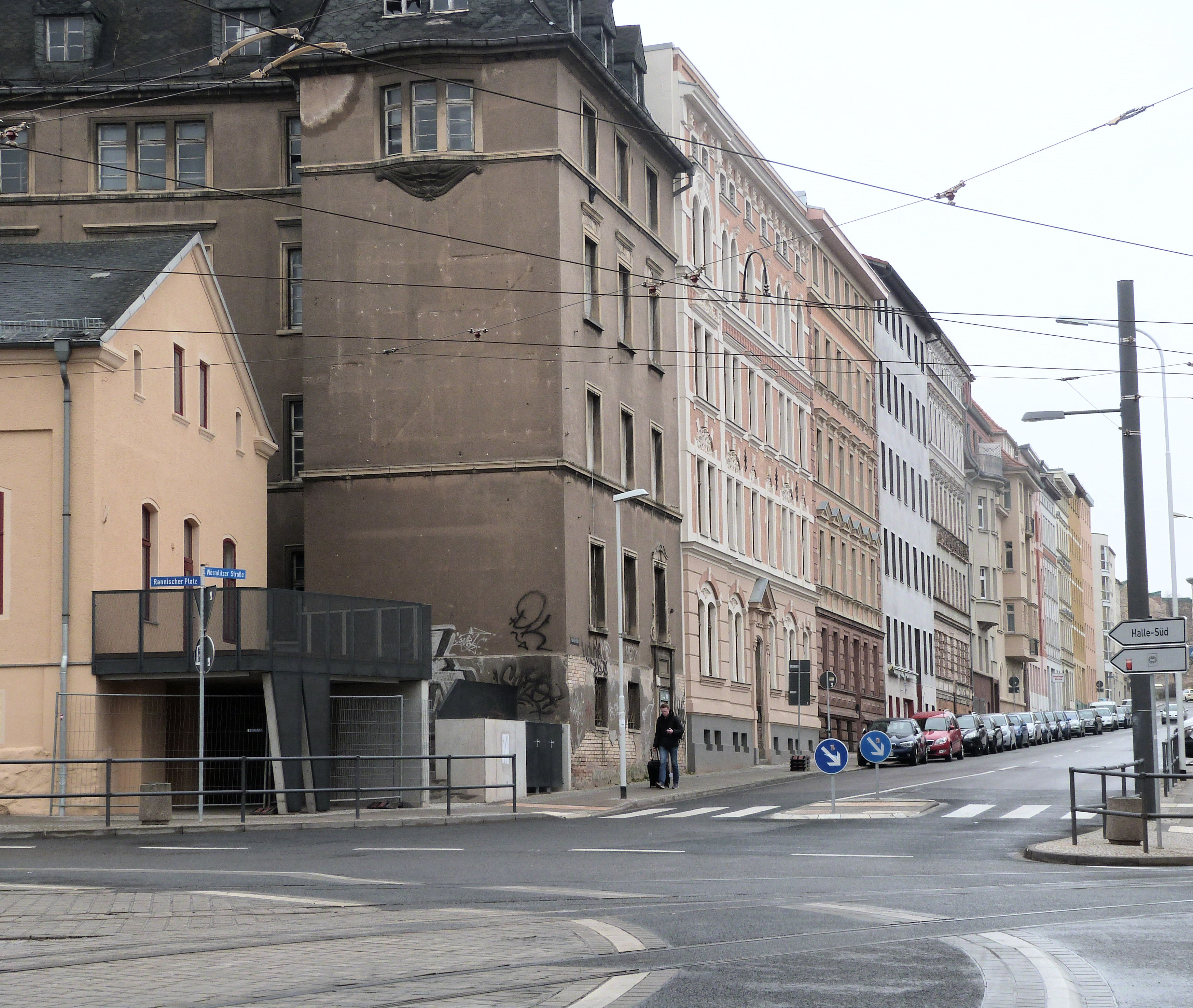 View in the Wörmlitzer Strasse from the square Rannischer Platz, Halle (Saale)